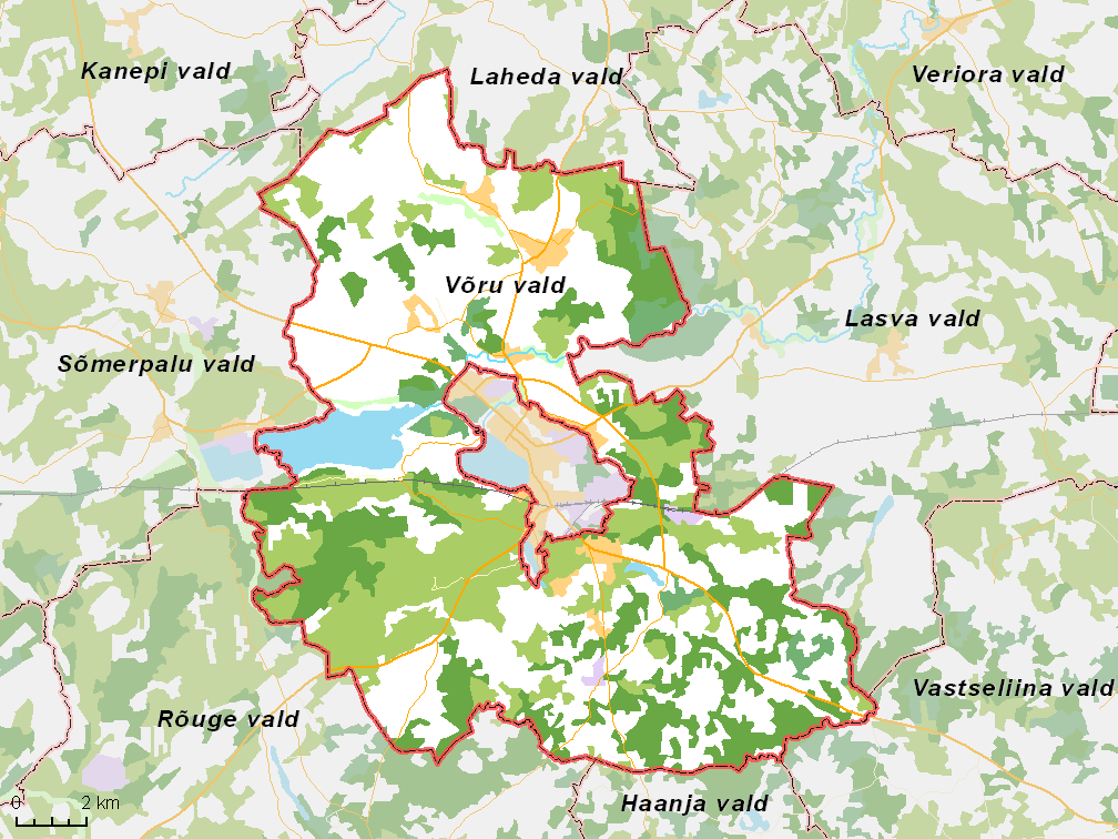 Map of municipality in Estonia